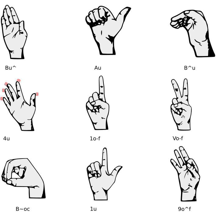 A list of gestures in the sign language system as described in Toki Pona: The Language of Good by Sonja Lang